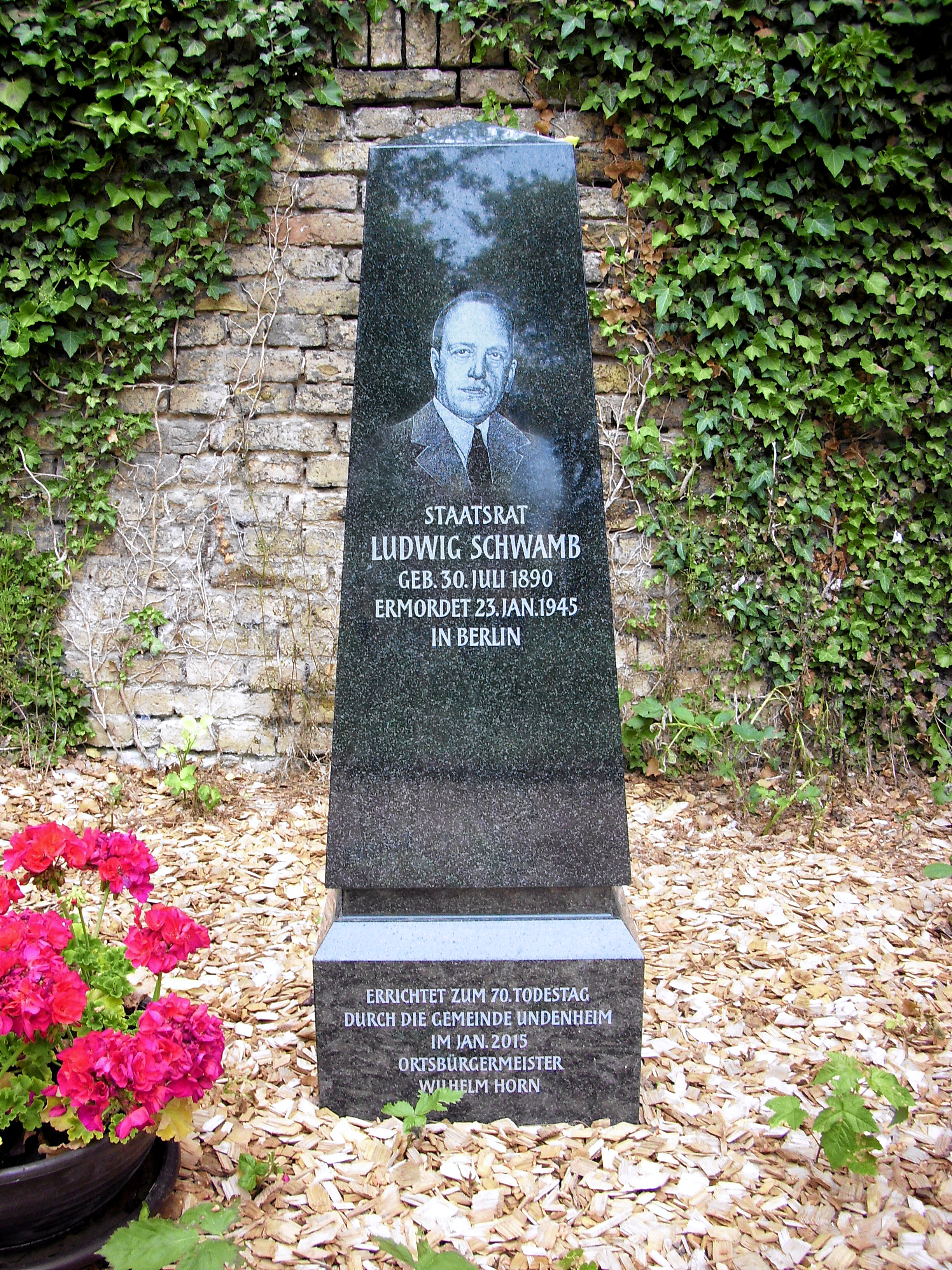 Ludwig Schwamb (* July 30, 1890 in Undenheim; † January 23, 1945 in Berlin-Plötzensee) was a lawyer, a social democratic politician and a close collaborator of Wilhelm Leuschner. Schwamb fought as a christian motivated member of the "Kreisau Circle" against the National Socialist dictatorship and was involved in the failed coup attempt on 20 July 1944.